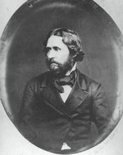 John C. Fremont.